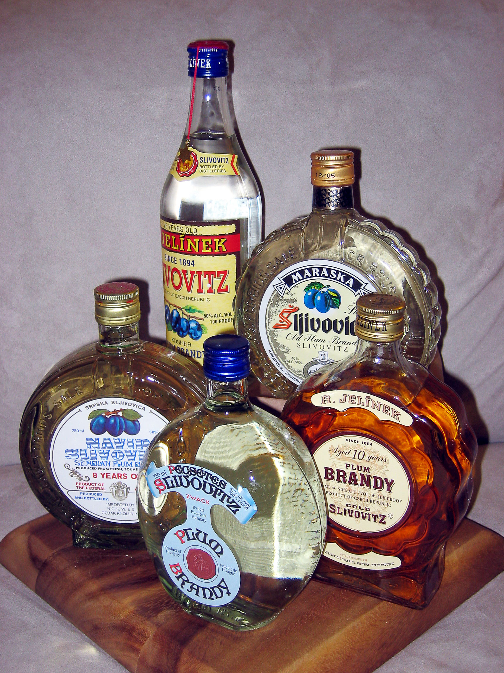 Five different bottles of slivovitz